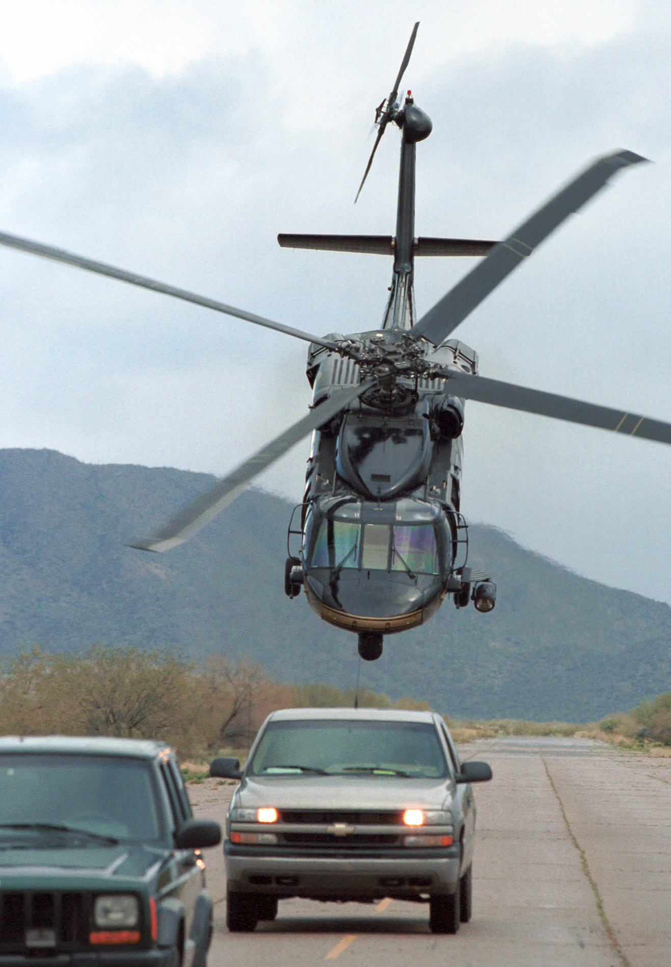 A U.S. Customs and Border Protection UH-60 Blackhawk helicopter swoops down on suspects. Original description by CBP: "A CBP Air unit UH-60 Blackhawk helicopter intimidates two vehicles on a remote air strip in America's southwest border region."